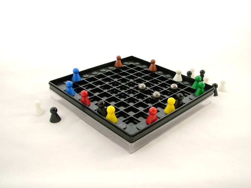 the playing board for Black Box, a board game.